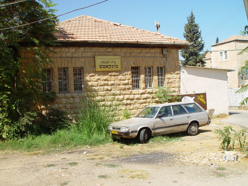 Synagogue of Batei Munkatsh, central Jerusalem